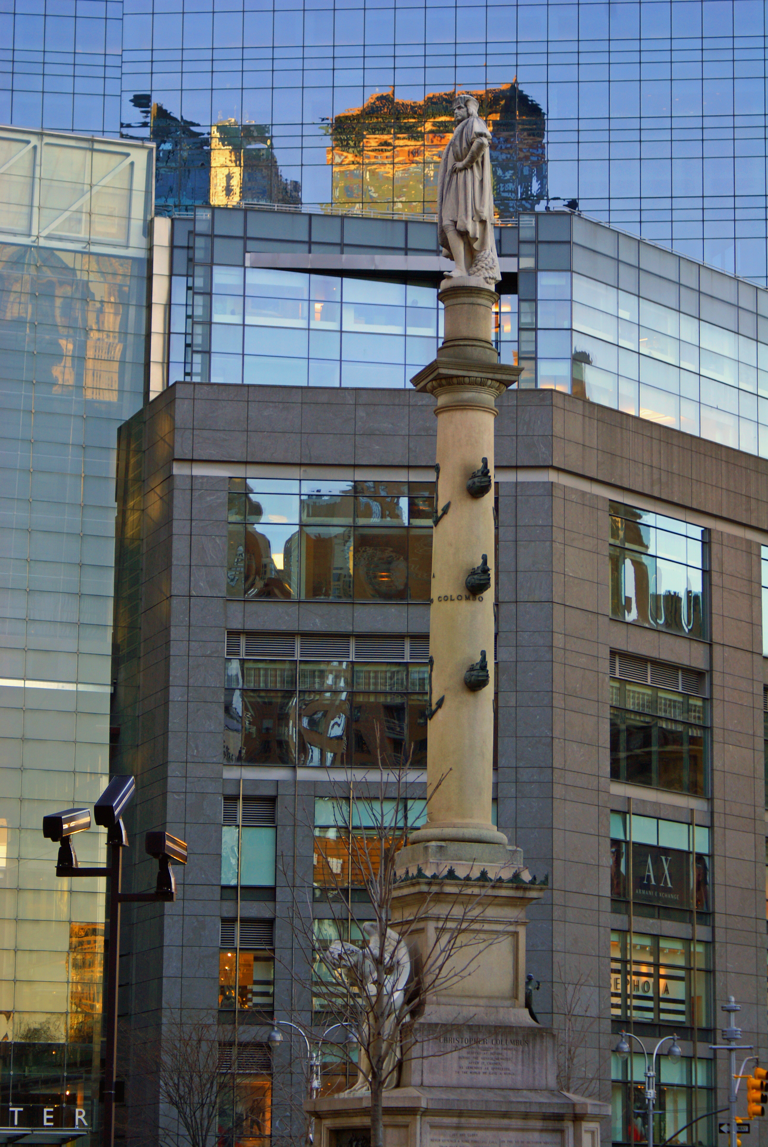 Columbus Circle in New York City, Manhattan